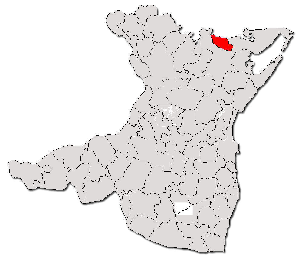 Contour map of commune Fantanele